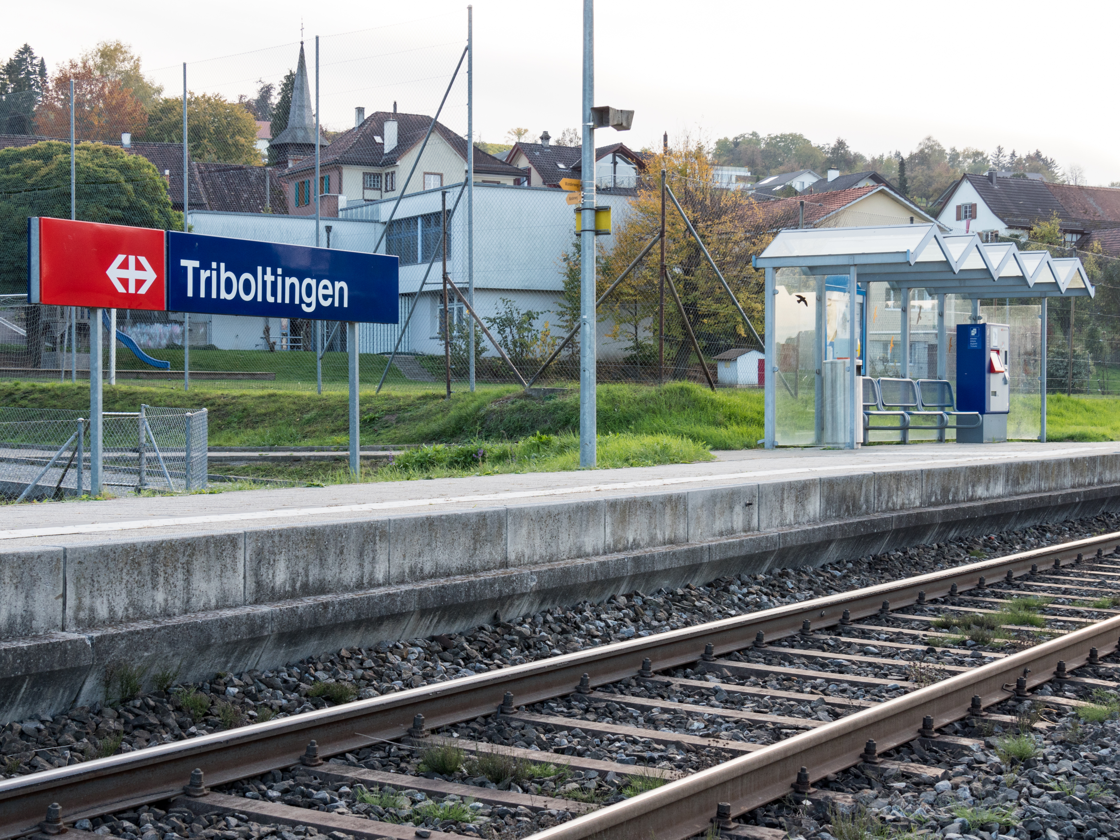 Triboltingen train station at the Kreuzlingen - Schaffhausen railway line.